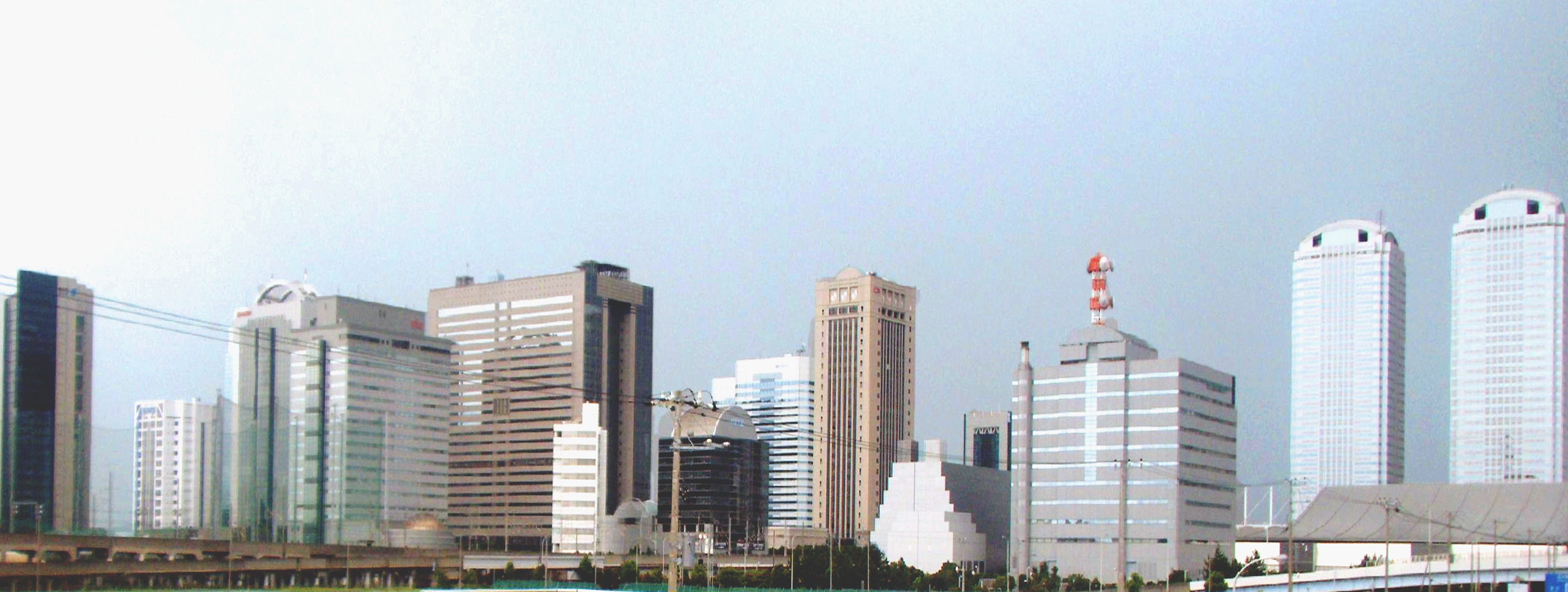 Downtown of Chiba Makuhari